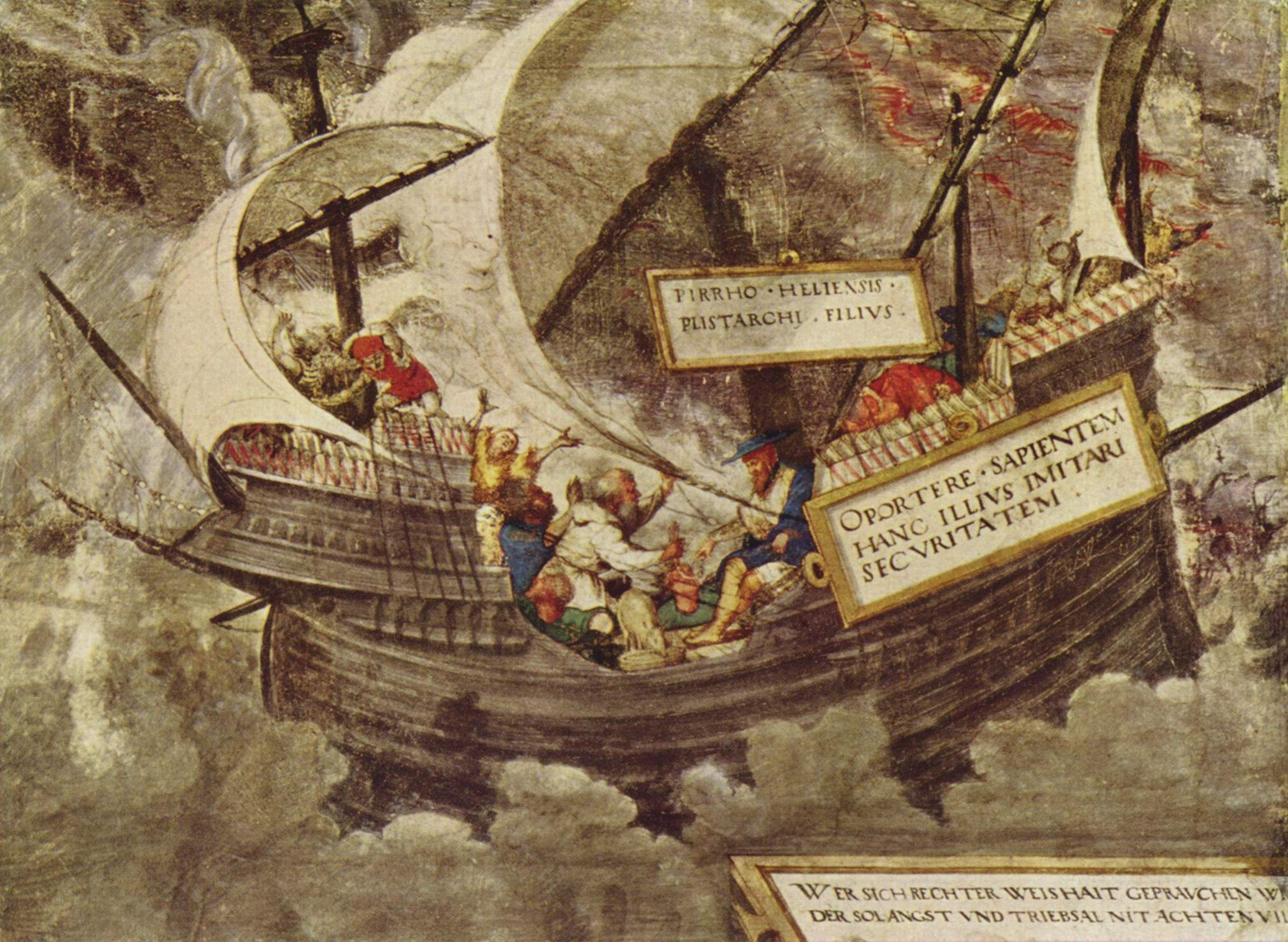 from an anecdote taken from Sextus Empiricus' Pyrrhonic Sketches (for the captions, see below)